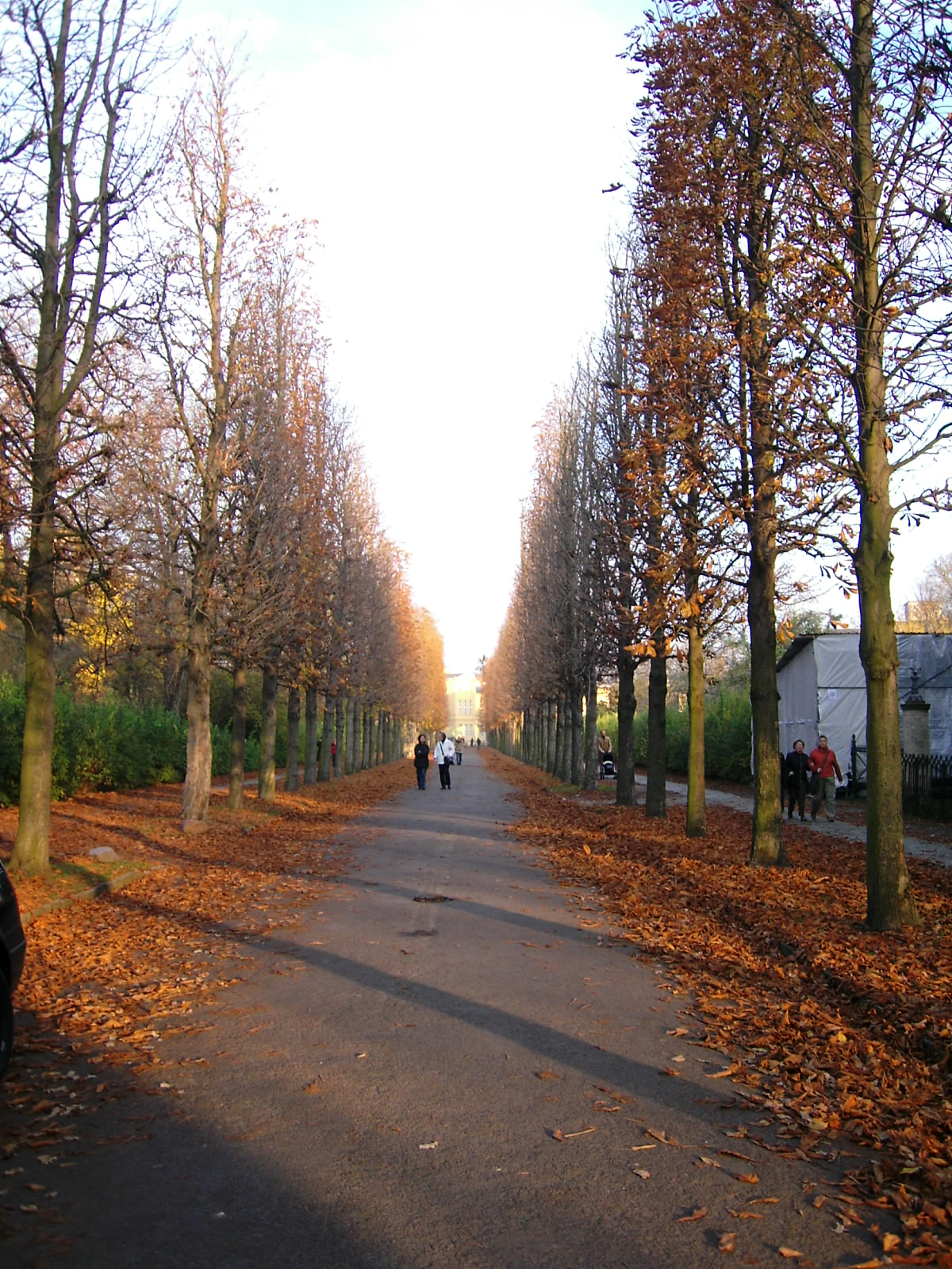 An avenue in Potsdam Sanssouci, with the Aesculus hippocastanum trees defoliated by Cameraria ohridella leaf miners. Photo July, despite looking like autumn.